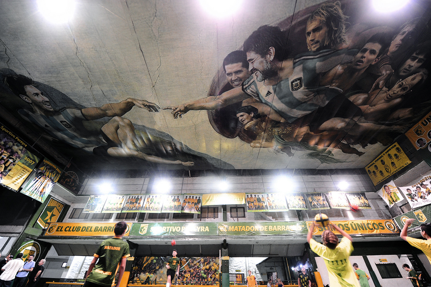 The Sistine Chapel of Soccer (also called "The Creation of Soccer") is a work exhibited at the Sportivo Pereyra club in Barracas, Buenos Aires, Argentina. It pays tribute to Diego Maradona and Lionel Messi along with other Argentine Soccer stars such as Juan Román Riquelme, Gabriel Batistuta, Mario Kempes, Sergio Agüero, Claudio Caniggia, Ricardo Bochini and Ariel Ortega. It is inspired by Michelangelo's classic fresco "The Creation of Adam" found in the Vatican's Sistine Chapel in Rome. It was created in 2014 by the Argentine graphic designer and artist Santiago Barbeito (aka Santuke) but it became globally popular on the eve of the 2018 Russia World Cup.